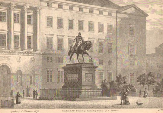 The equestrian statue of Frederik VII of Denmark in front of Christiansborg on Slotsholmen in Copenhagen, Denmark